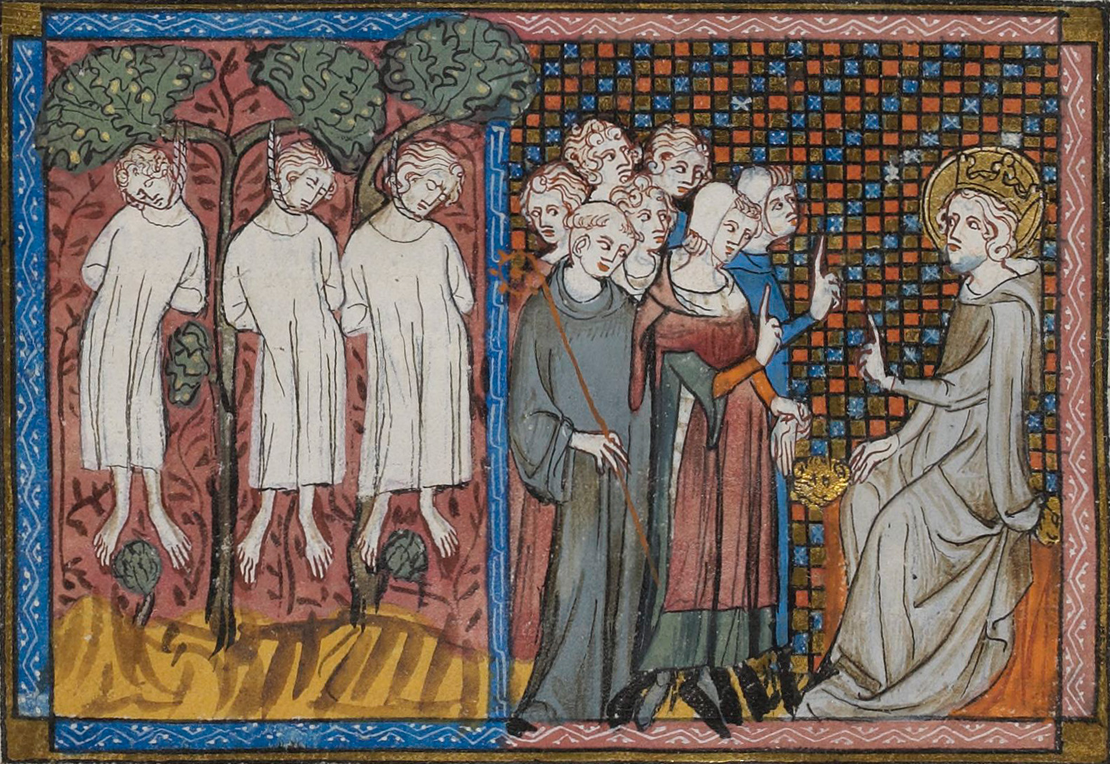 St. Louis pronouncing judgement and condemning Enguerrand de Coucy (1228-1311) for hanging three young noblemen.BnF, Ms.Fr. 5716.